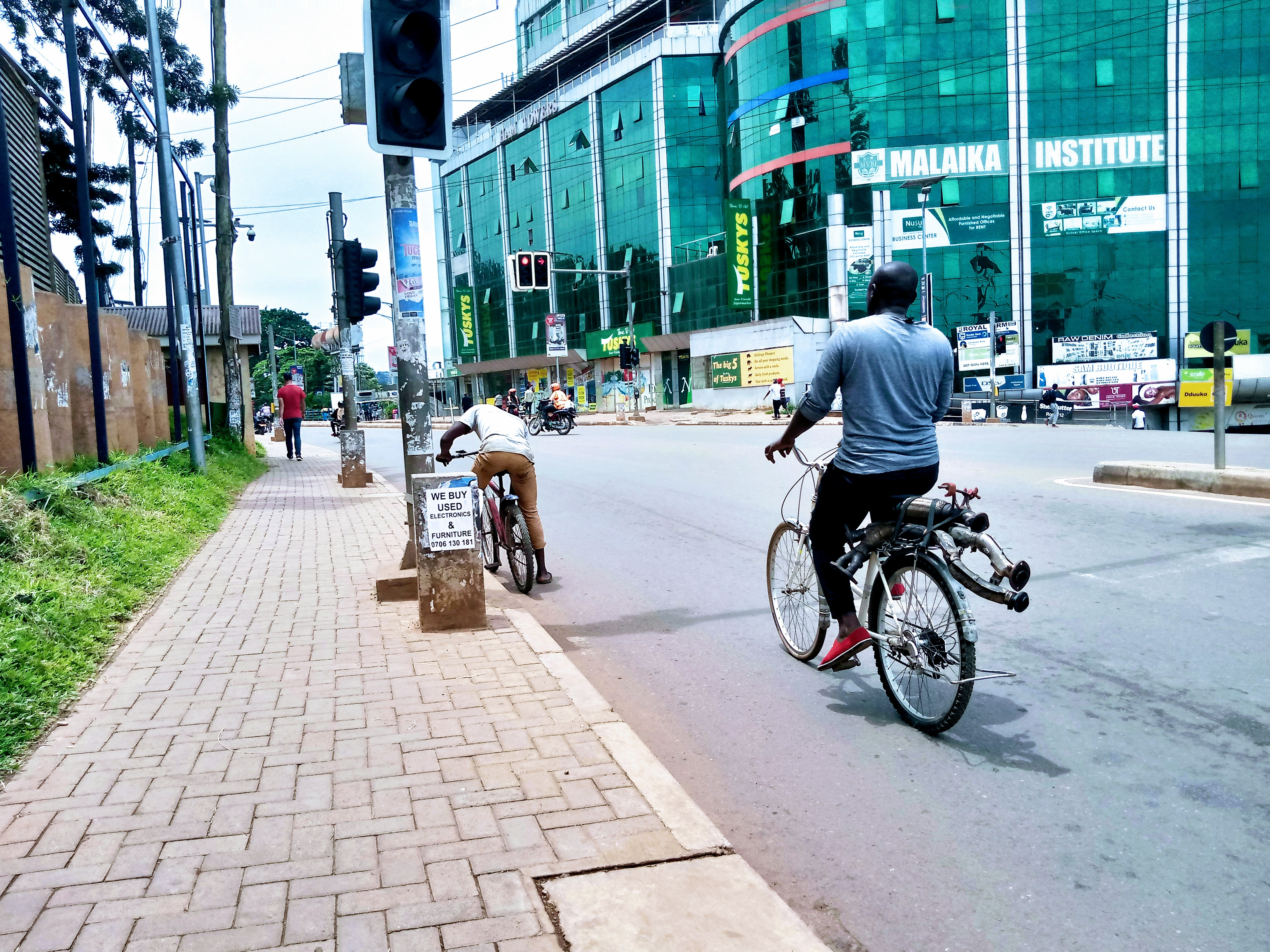 Exempted bikes during lockdown due to covid 19 in Uganda This is an image with the theme "Africa on the Move or Transport" from: Uganda